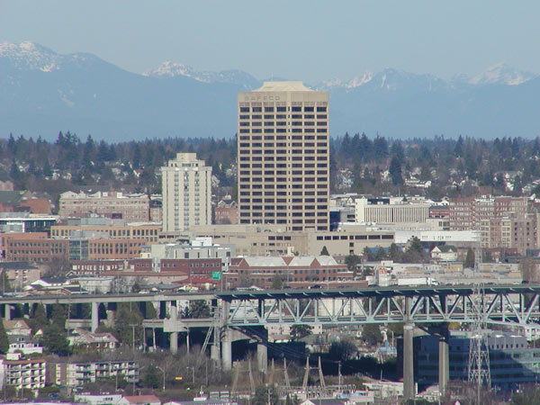 University District, Seattle, Washington. The Interstate 5 Lake Washington Ship Canal Bridge is in the foreground. This is before the Safeco Building (the tallest building visible in this picture) became a University of Washington office building. To its left is the Hotel Deca (originally the Meany Hotel).